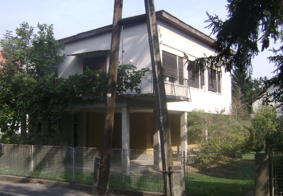 Cvjetno naselje district in Zagreb.